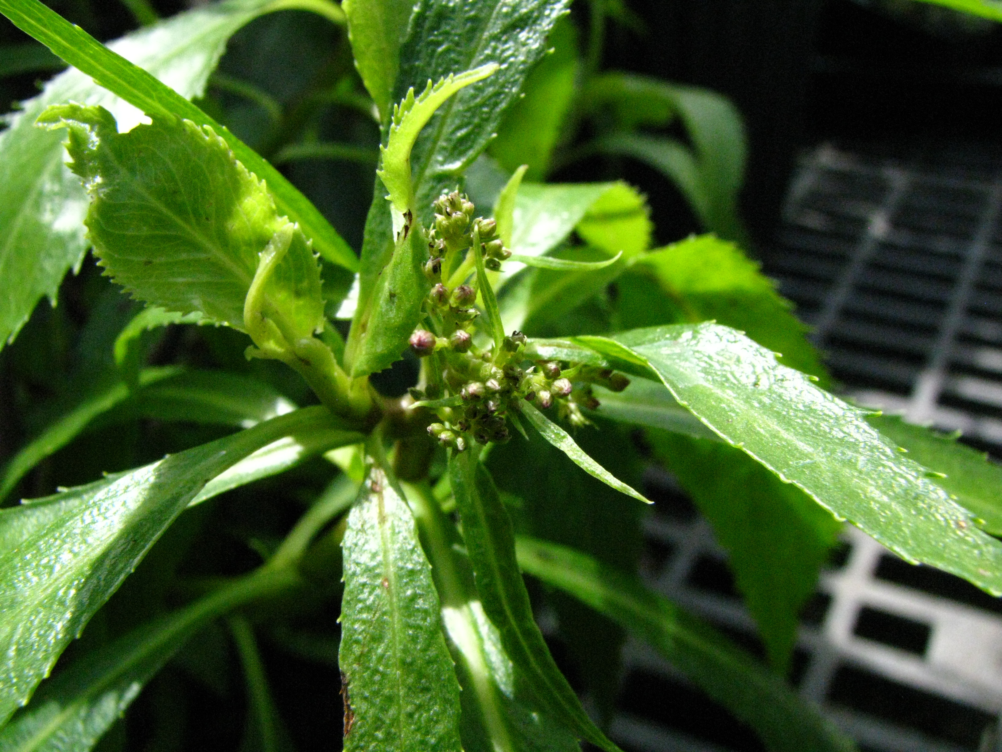 Kalalau Valley remya Asteraceae Endemic genus to the Hawaiian Islands (Kauaʻi only) Very rare and endangered Kauaʻi (Cultivated)